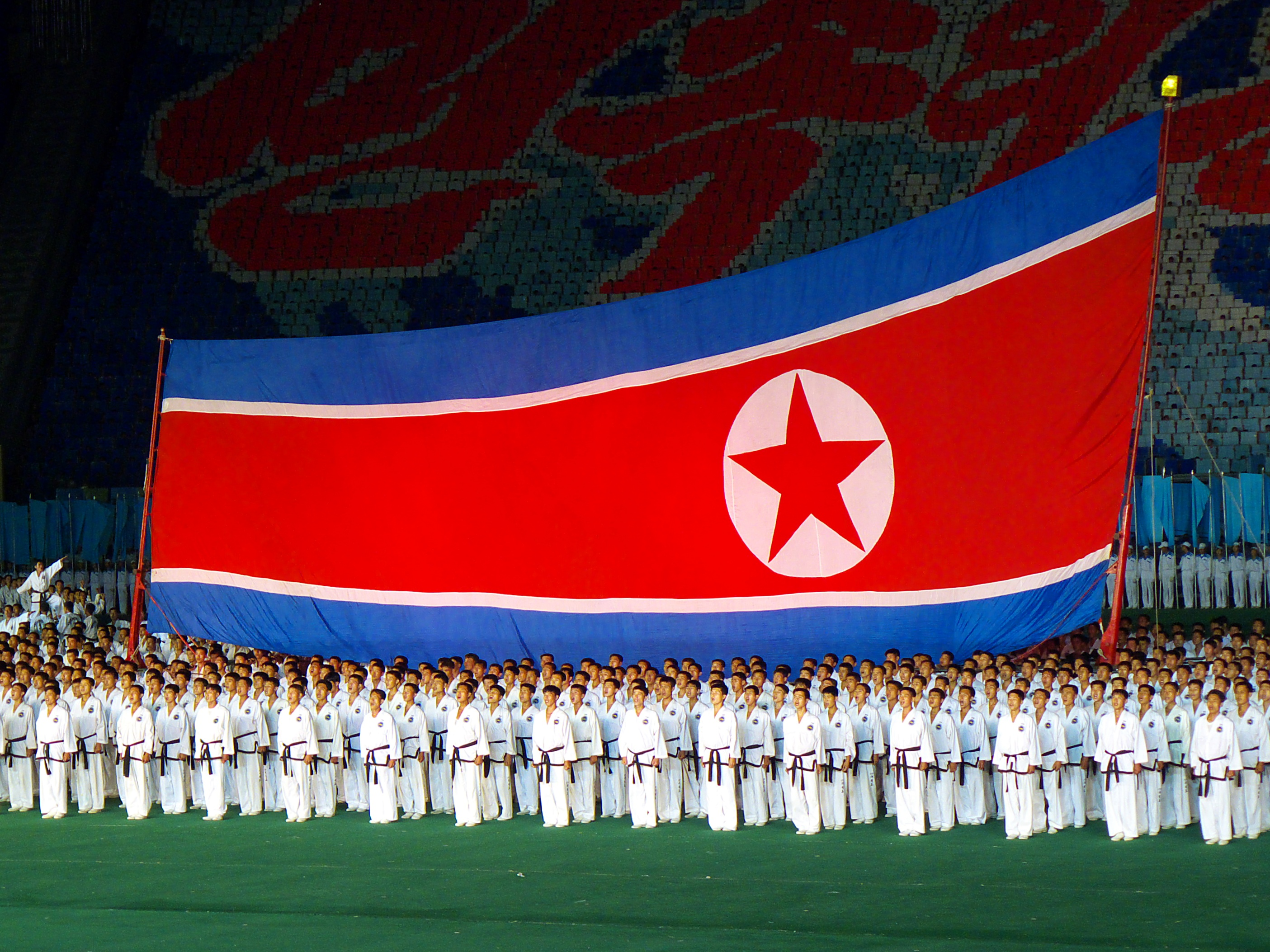 The Arirang Mass Games, held in the Rungnado May Day stadium (incidentally the largest in the world by seating capacity), retells the history of the country, well, their version of it at least. The performance is famed for huge mosaics created by thousands of school children and complex mass gymnastics and dance routines.